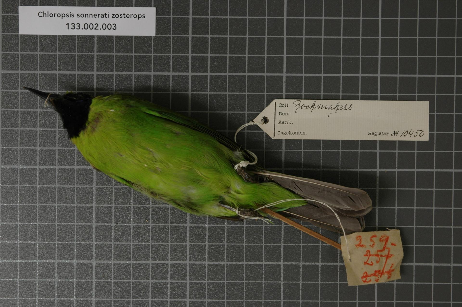 Chloropsis sonnerati zosterops Vigors & Horsfield, 1830